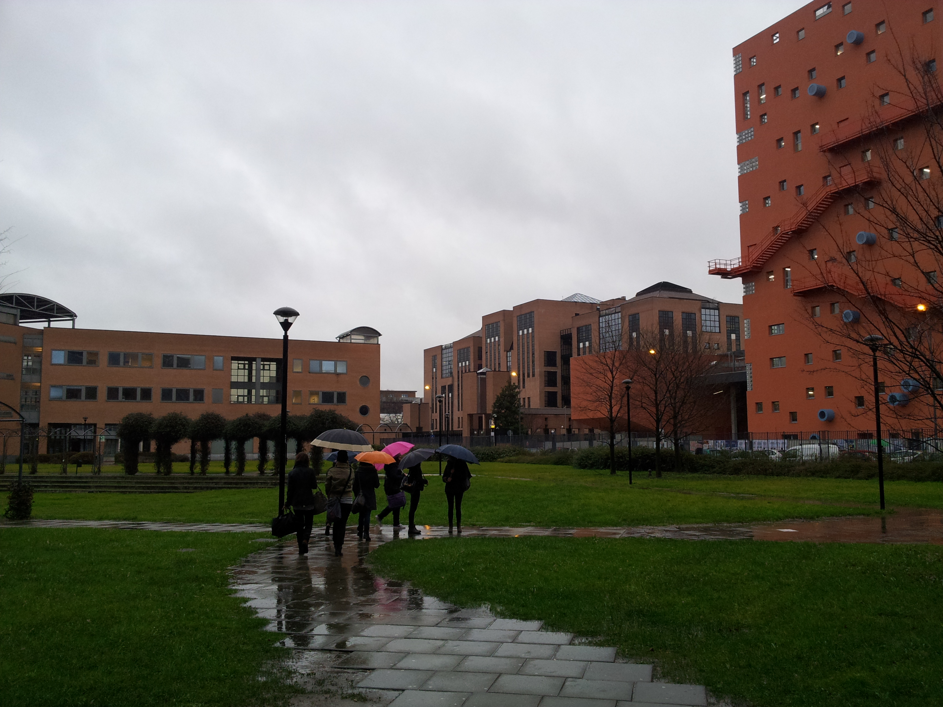 IULM University, Milan. Building 2, building 1 and Knowledge Transfer Centre.